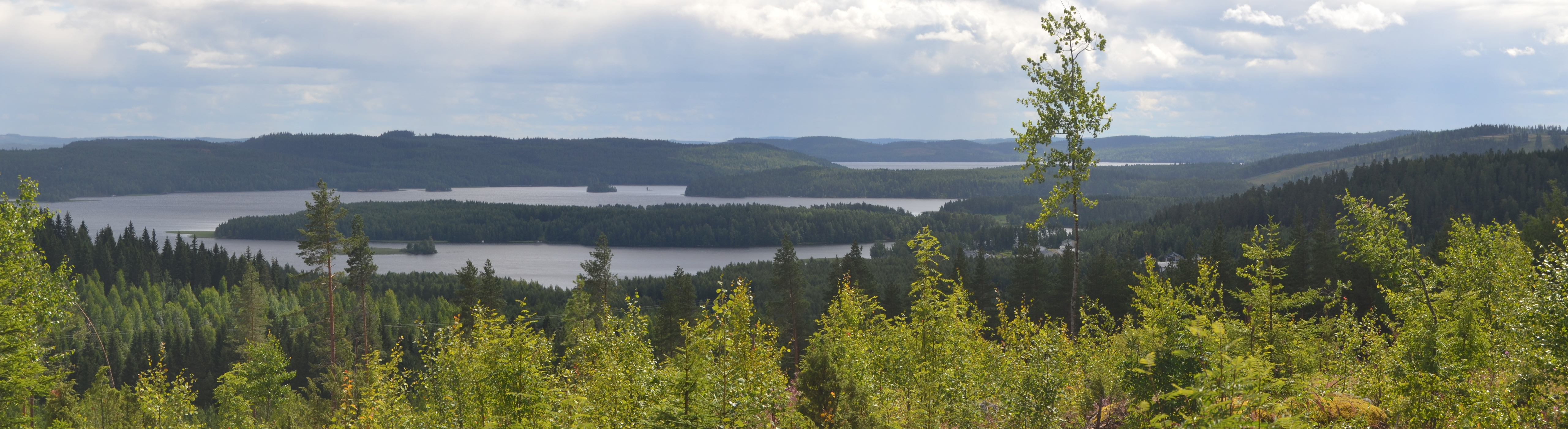 Lake Päijänne from Paasivuori in Muurame, Finland